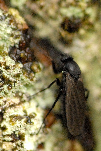 Gymnophora arcuata from Commanster, Belgian High Ardennes .